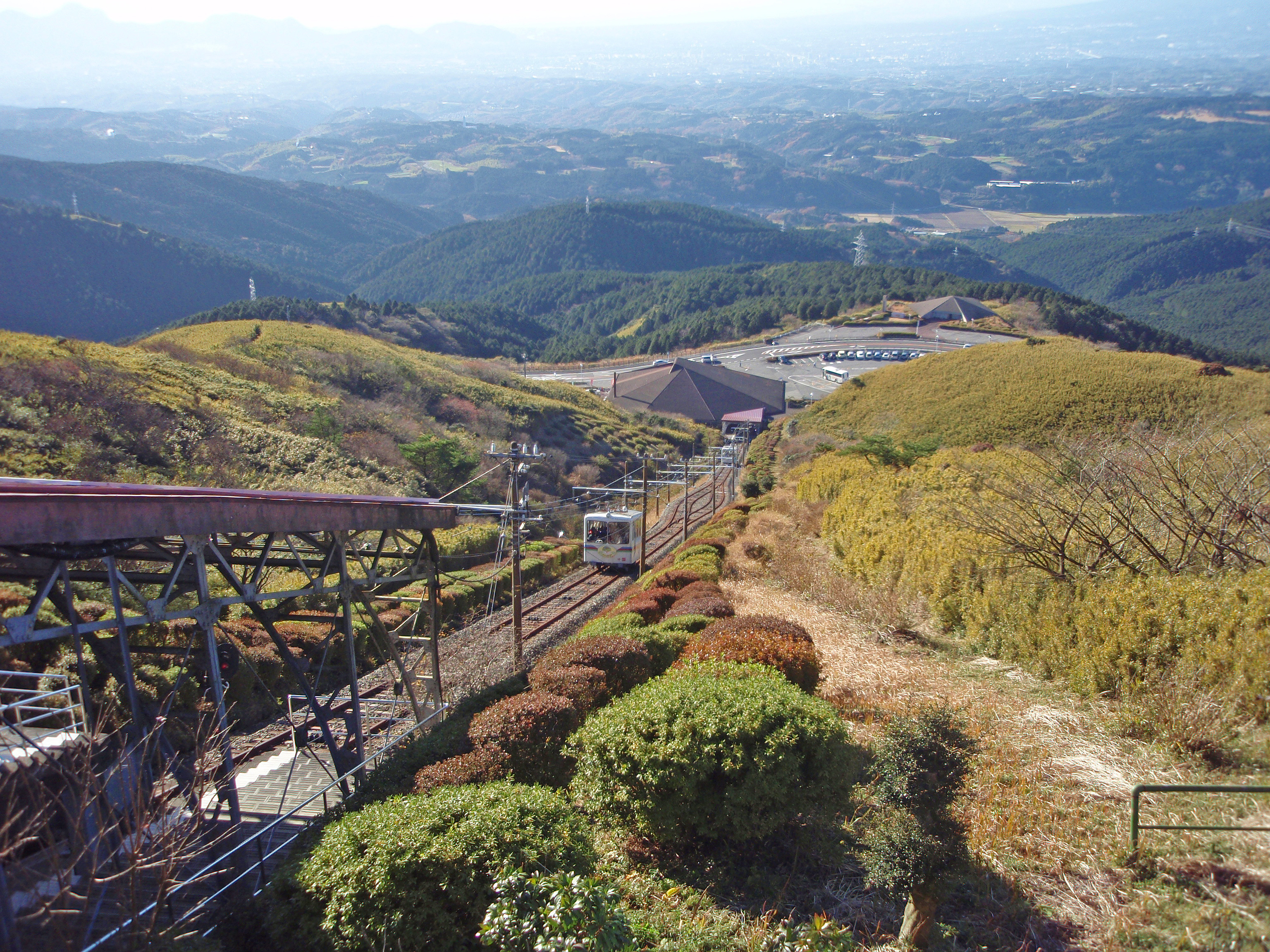 Jukkokutōge Cable Car in Shizuoka Prefecture, Japan.